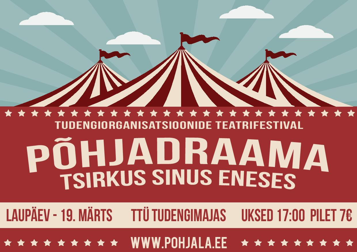 XVII Põhjadraama plakat